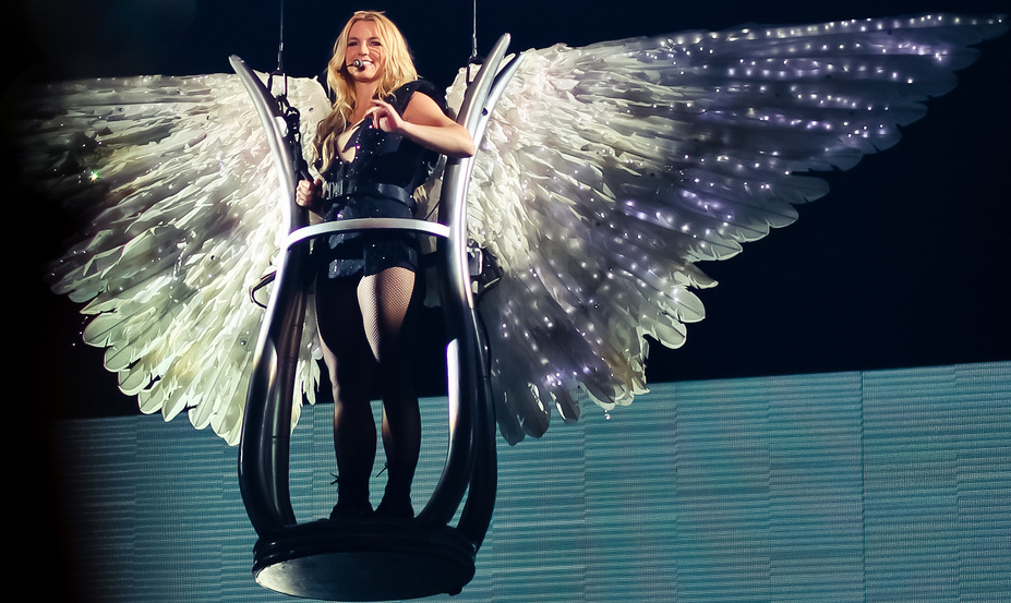 Britney Spears. Femme Fatale. Kiev 2011